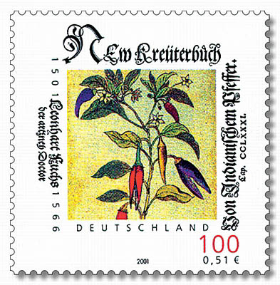 Stamp from Deutsche Post AG from 2001, 500th birthday of Leonhart Fuchs